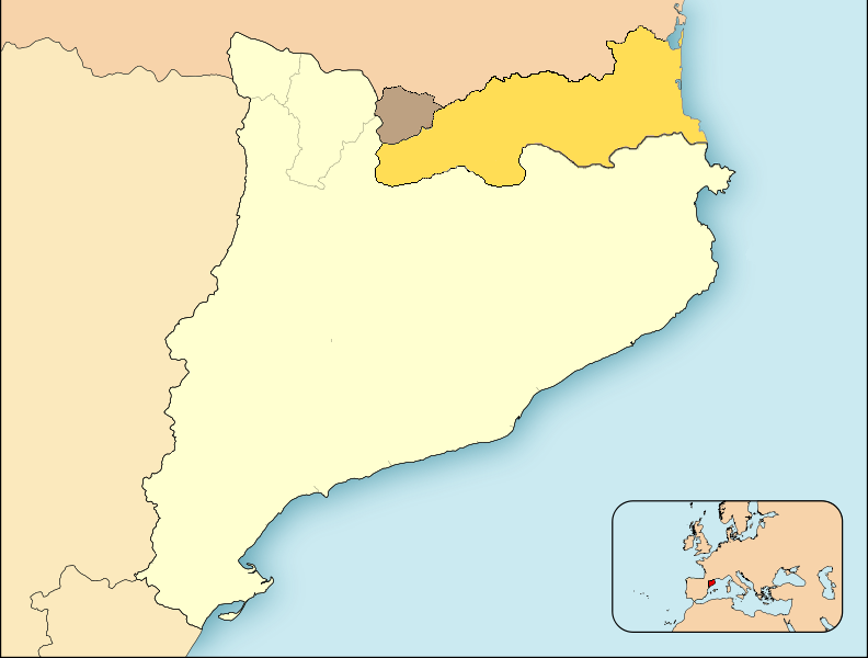 Catalunya 1313-1349